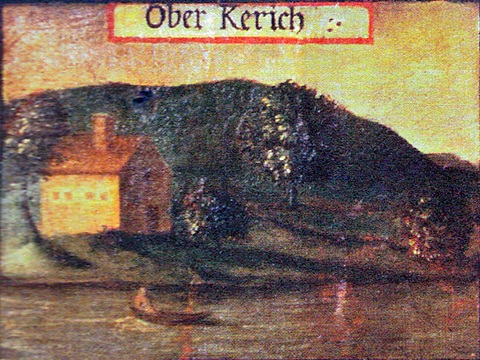 Oberkirch in 1589